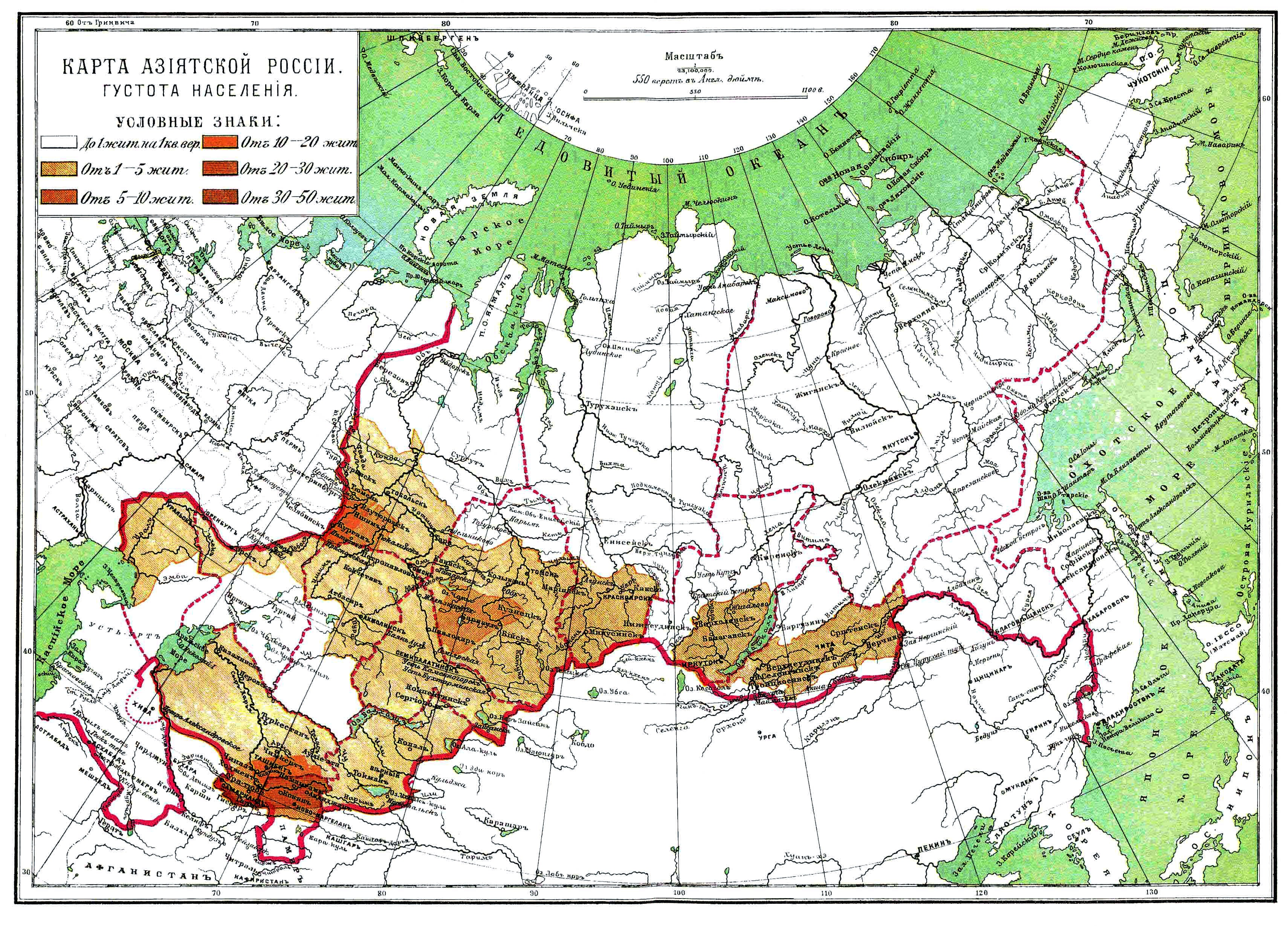 Population density of Russian Empire (Asian side). The end of XIX century.